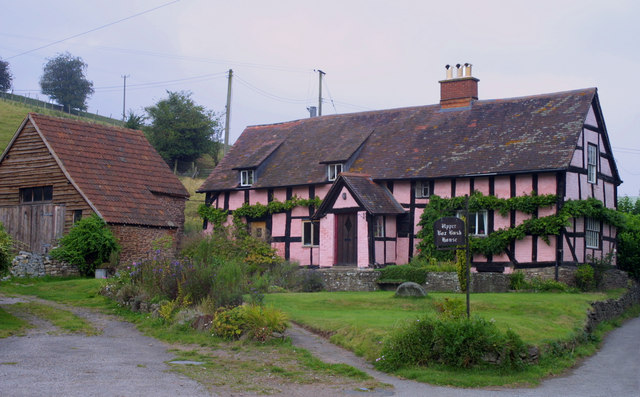 Upper Box Bush House. On the A40 going towards Ross-On-Wye.